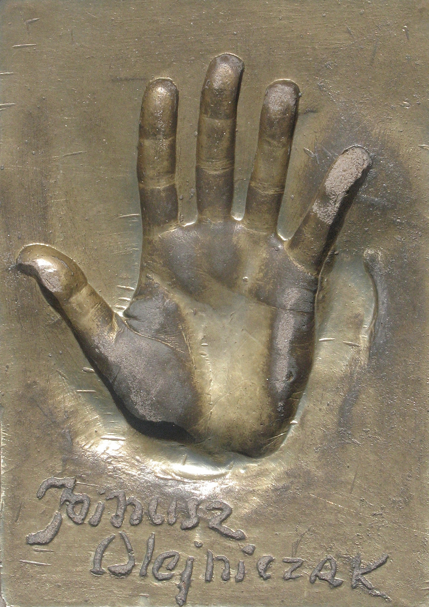 Janusz Olejniczak - handprint and signature in Międzyzdroje